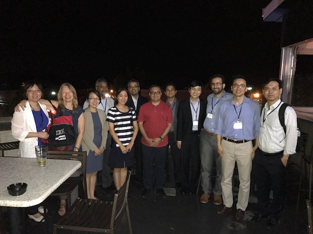 MSOM Conference 2017 (University of North Carolina at Chapel Hill) Handbook of Healthcare Analytics